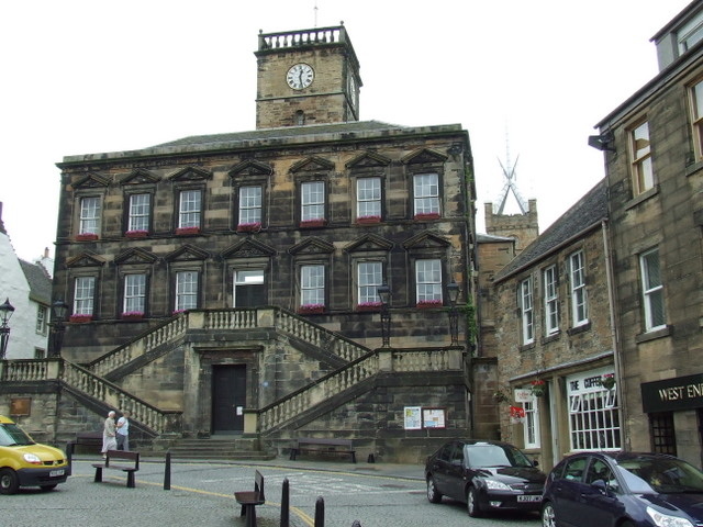 Linlithgow Town Hall In Kirkgate, off High Street. St Michael's Church tower is visible to the top right.